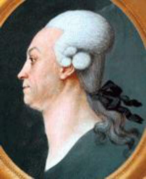 Portrait of Christian Franz von Sachsen-Coburg-Saalfeld (1730-1797)